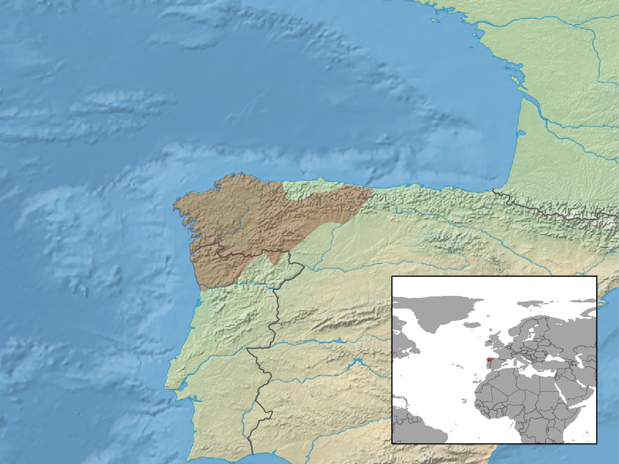 geographic distribution of Podarcis bocagei